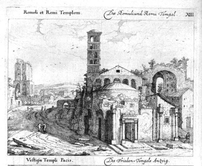 Engraving. View of Church of Ss. Cosma e Damiano in the Forum of Peace, Rome.